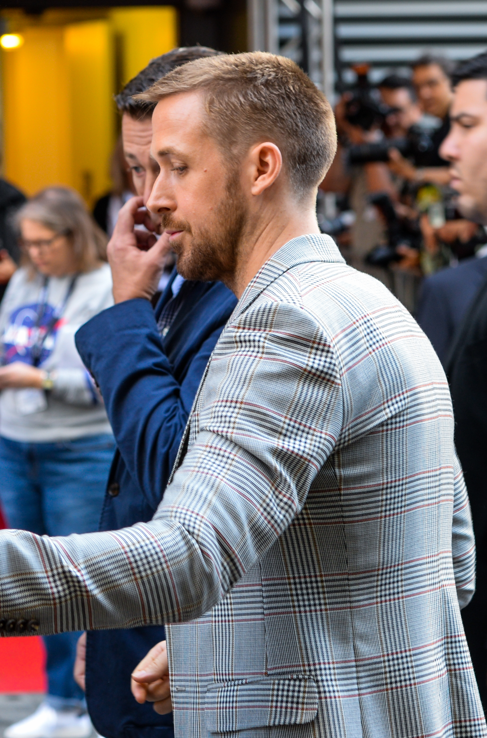 First Man-TIFF 2018